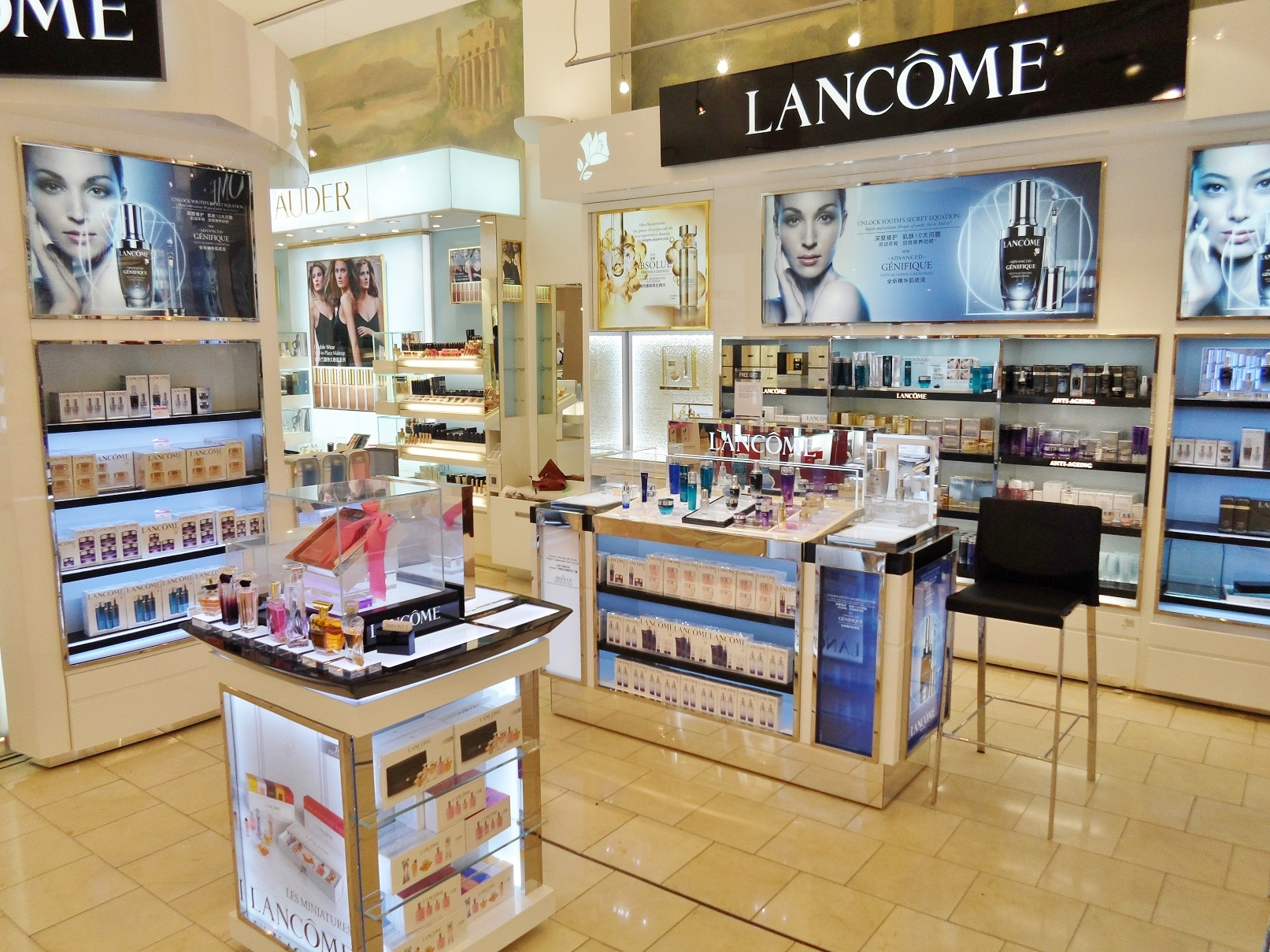 Counter for French cosmetics company Lancôme at DFS Galleria Customhouse in downtown Auckland, New Zealand in 2013.